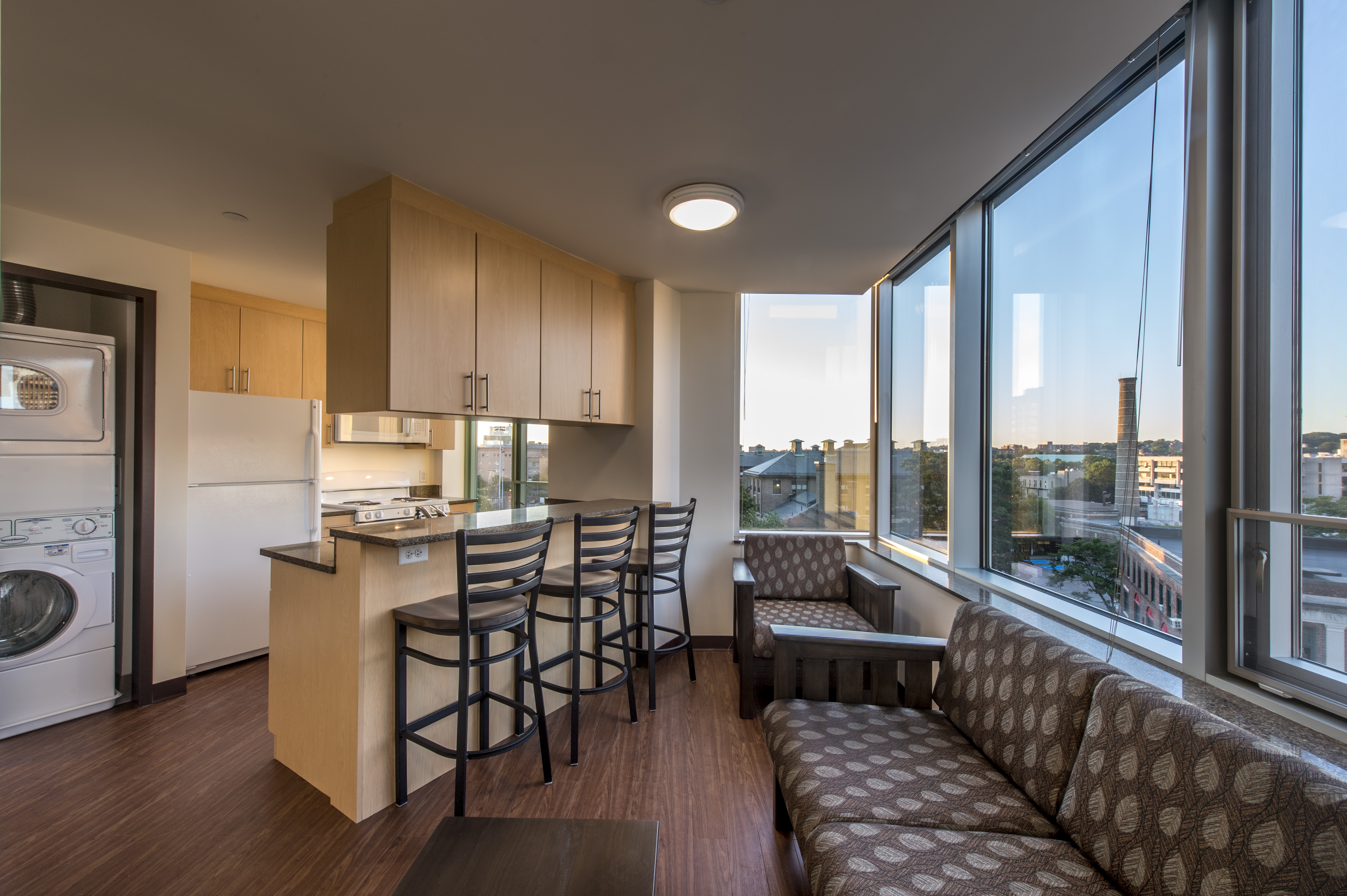 The inside of a Wentworth apartment at 525 Huntington Avenue (Photo taken by Greg Shuppe)